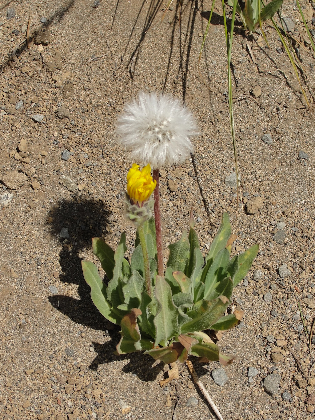 Agoseris glauca var. dasycephala (Sourdough Ridge, Mount Rainier National Park)